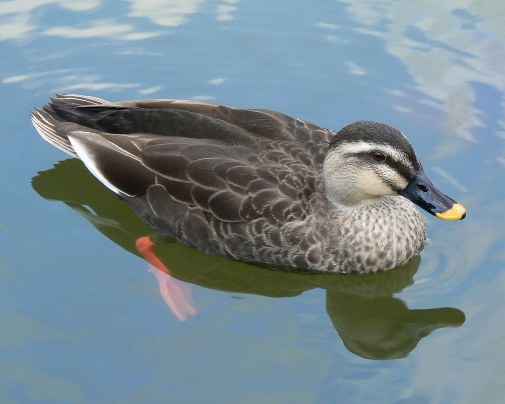 Eastern Spot-billed Duck Anas zonorhyncha